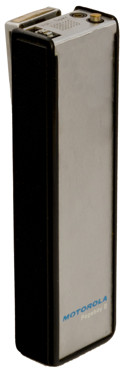 Motorola Pageboy II frontside